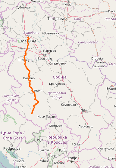 OpenStreetMap of State Road 21 in Serbia.